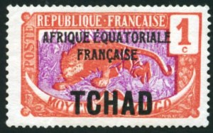 1924 French colonial stamp for Chad.